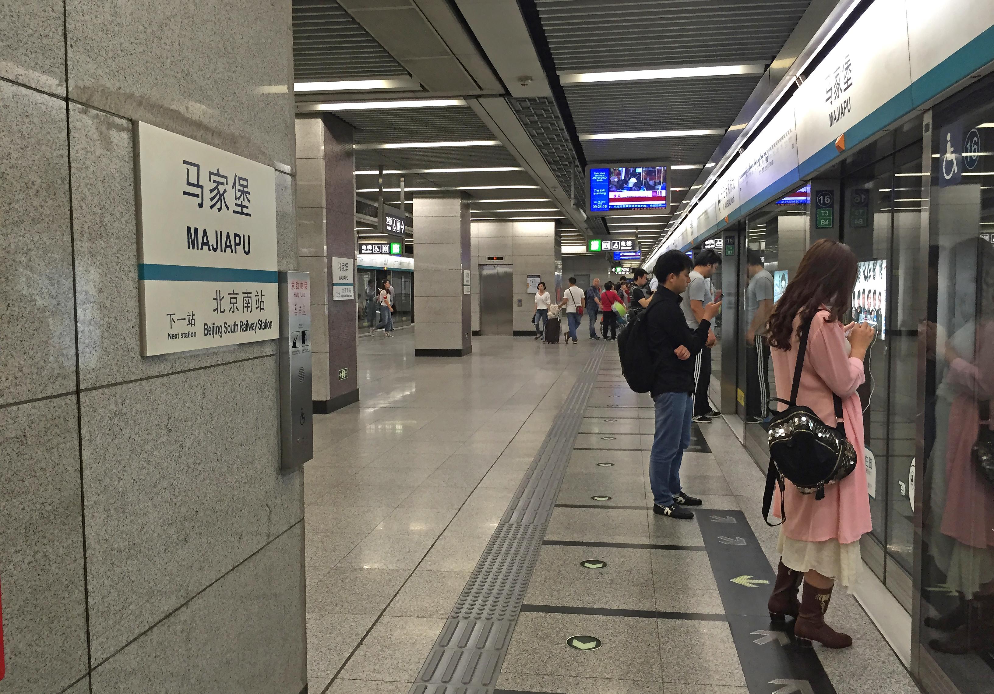 The northbound train will soon arrive.